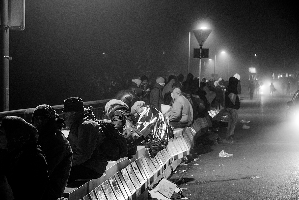 Refugees at the bridge connecting Braunau (in Austria) with Simbach (in Germany) waiting and freezing